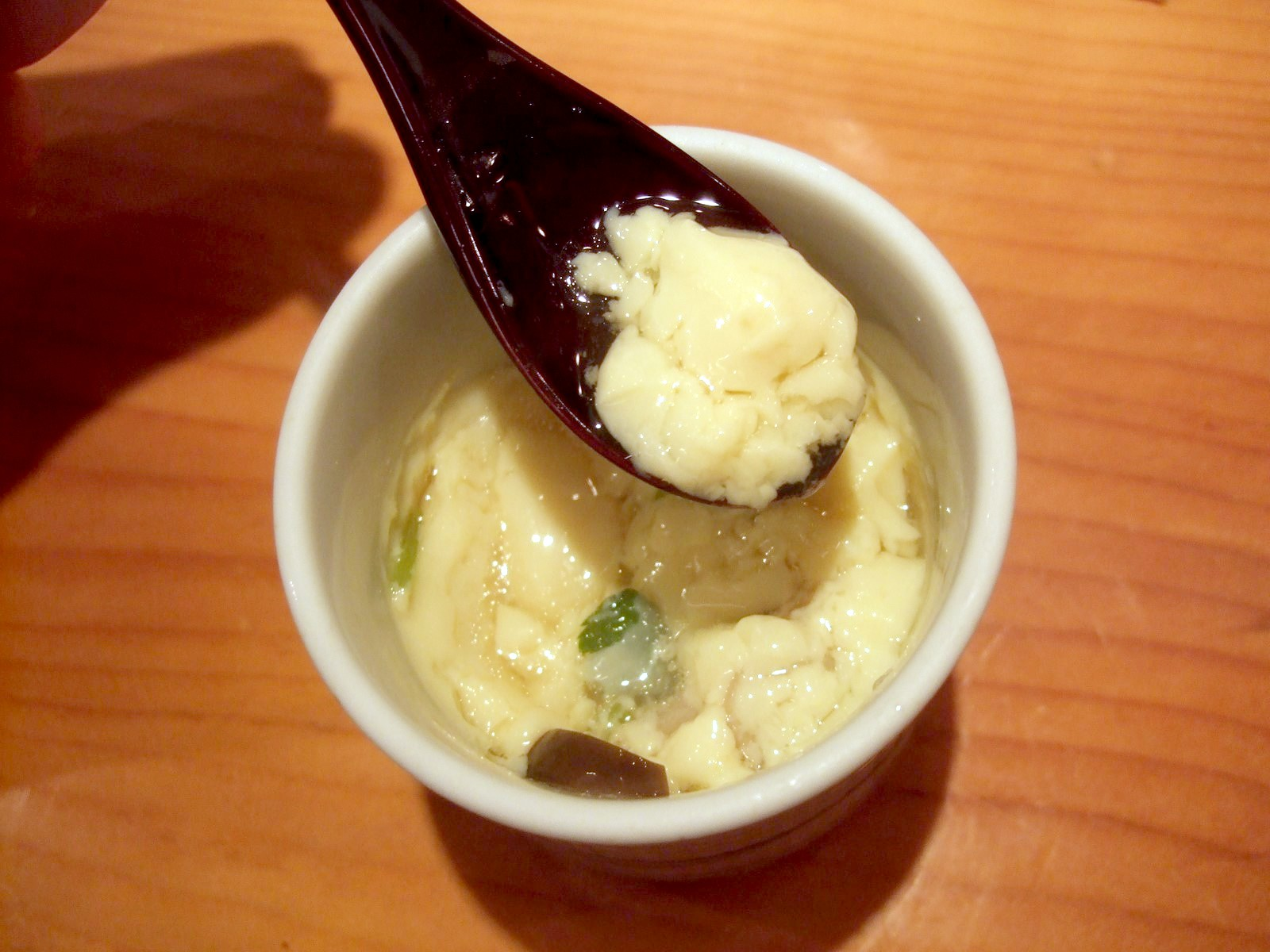 with a spoon